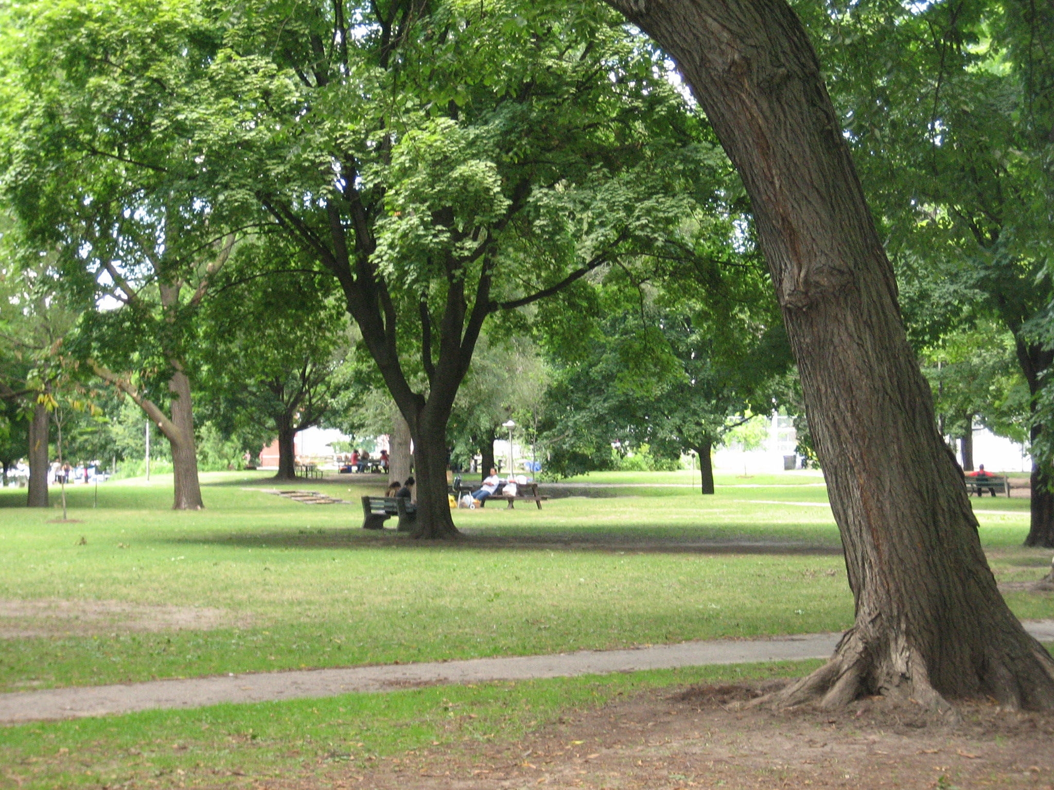 Dufferin Grove Park in Toronto